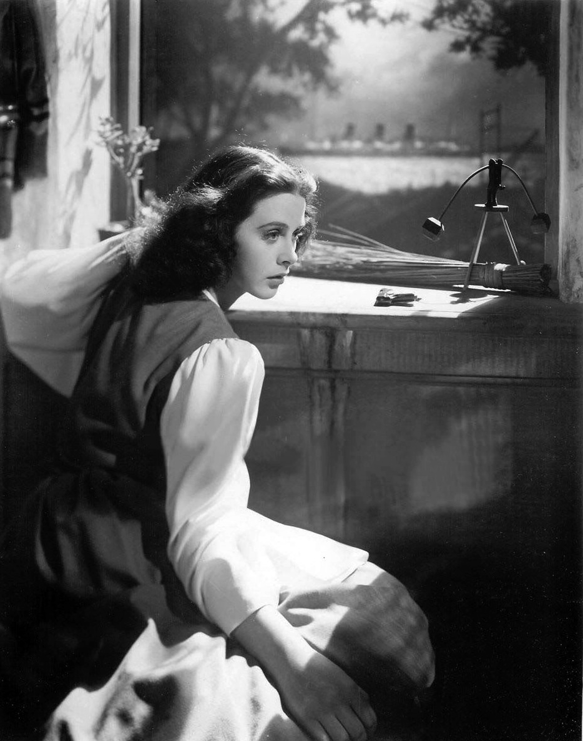 Hedy Lamarr in Lady of the tropics (1939)